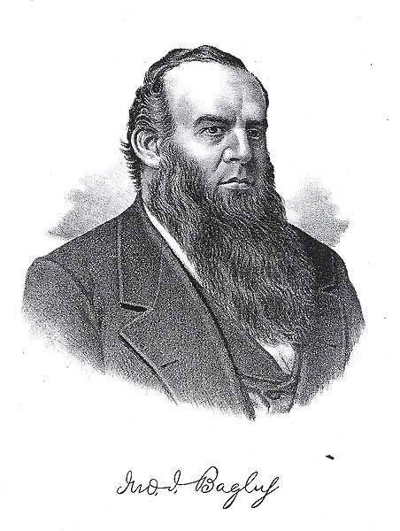 John Judson Bagley (July 24, 1832 – July 27, 1881) was a politician from the US state of Michigan, as well as its 16th Governor.